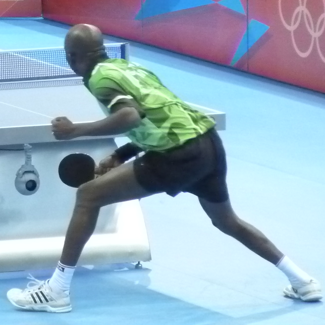 Segun Toriola (Nigeria) v Jorgen Persson (Sewden), 1st round of men's table tennis, ExCel arena, London Olympics, 28 July 2012